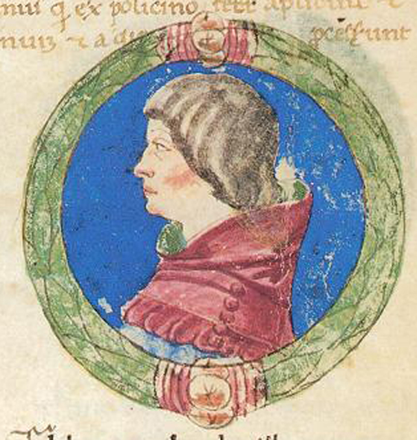 Folco I d'Este